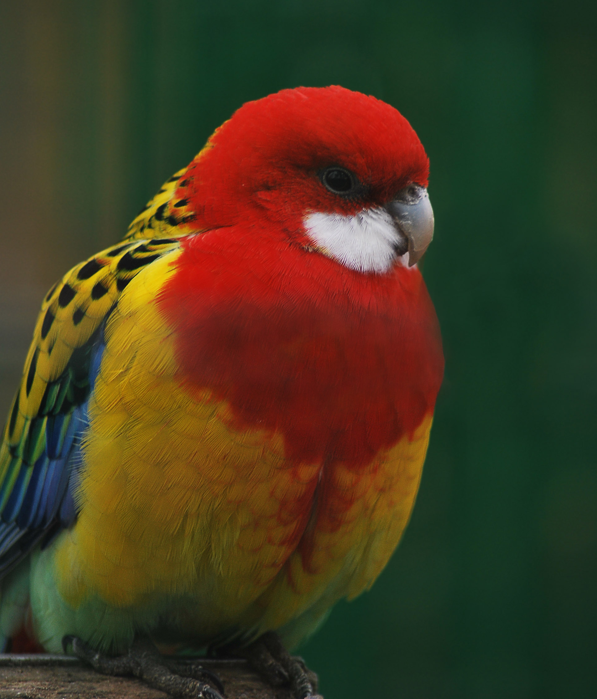 Eastern Rosella (Platycercus eximius) taken in a park in Southport, England.